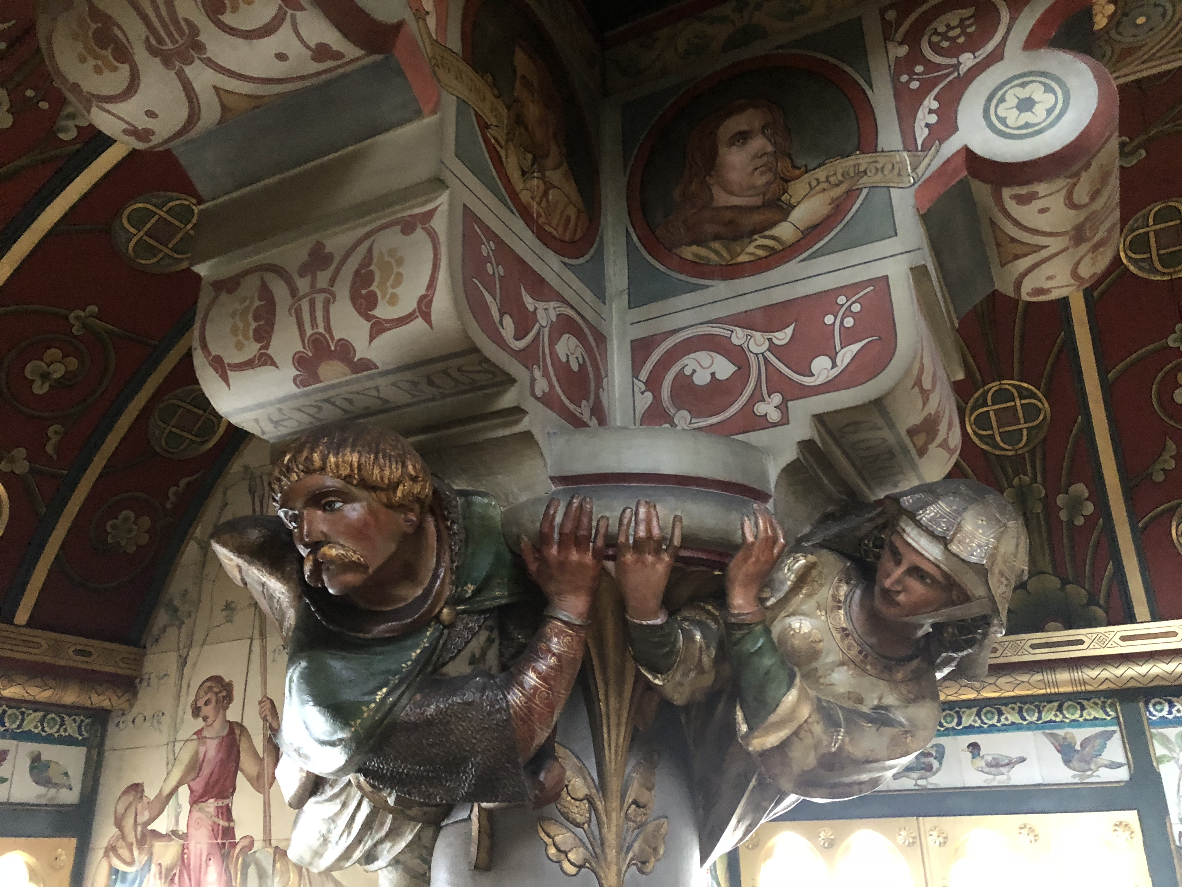 Corbel, Summer Smoking Room, Cardiff Castle